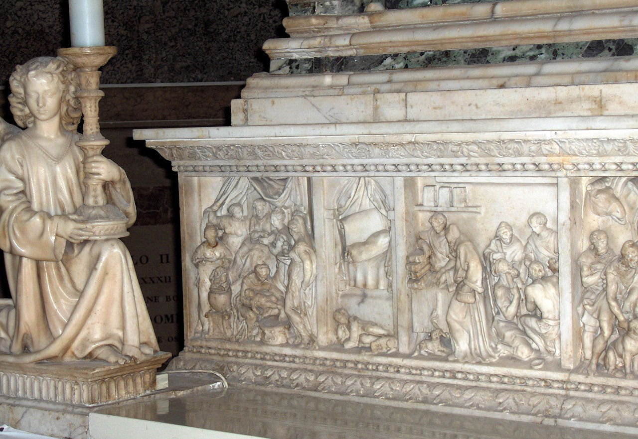 Baptism of St Dominic; Dominic sleeping on the floor; Dominic sells his parchments to feed the people (by Nicola Pisano and assistants); candlestick-holding angel (by Niccolò dell' Arca); (left lower side of the) Ark of Saint Dominic, Basilica of Saint Dominic, Bologna, Italy